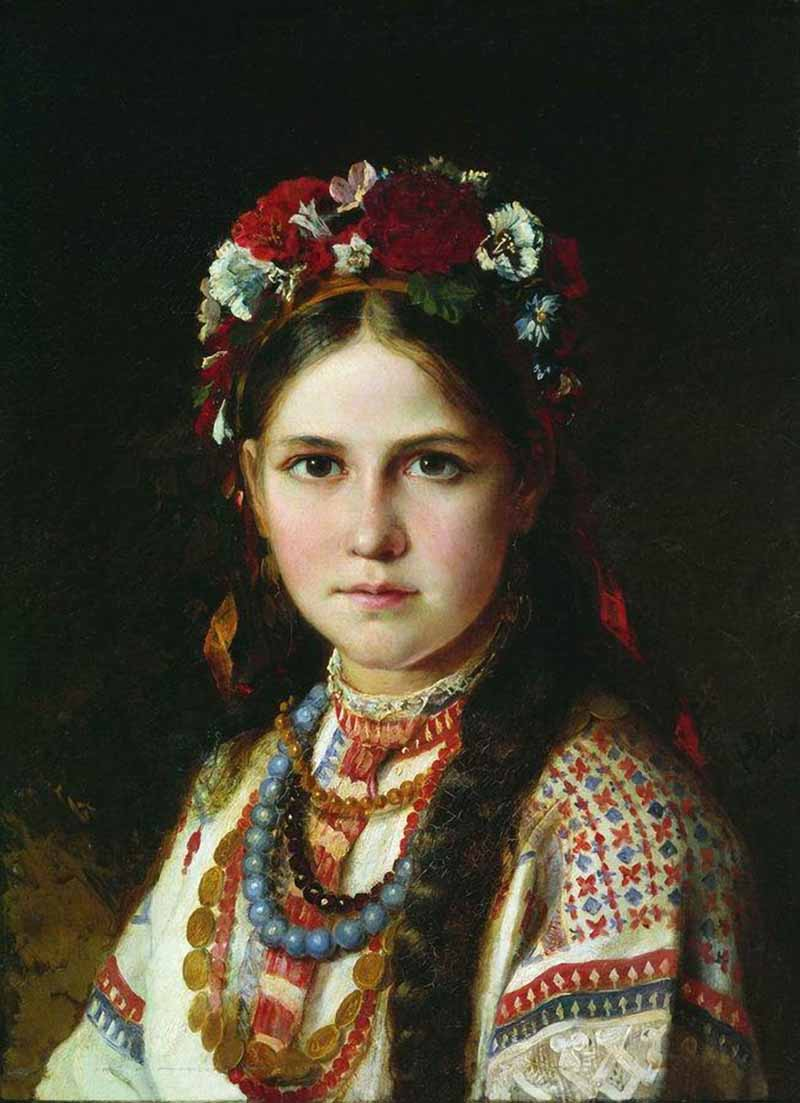 Ukrainian «Девушка-украинка» Вторая половина XIX века Холст, масло. 55.5 x 41.5 см Черниговский областной исторический музей